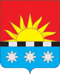 Coat of arms of Redkino town, Tver region, Russia.